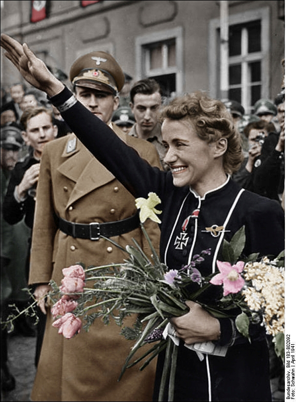 Translation of original image caption: "The only woman in Germany with the Iron Cross visits her hometown. A photo of Captain Hanna Reitsch's reception in her hometown of Hirshberg in the Riesen Mountains of Silesia. Hanna Reitsche is shown thanking the people of the town for her reception. Near her is the Gauleiter of Lower Silesia, Senior-President Hanke."Depicted people Reitsch, Hanna: Segelfliegerin, Flugkapitän, Bundesrepublik Deutschland (GND 118599593) Hanke, Karl: Staatssekretär, Gauleiter und Oberpräsident von Niederschlesien, Deutschland (GND 130339490)Date April 1941date QS:P571,+1941-04-00T00:00:00Z/10Collection German Federal Archives Native nameDas BundesarchivLocationKoblenz (headquarters)Coordinates50° 20′ 32.71″ N, 7° 34′ 21.22″ E Established1946Web page control : Q685753 VIAF: 137346469 ISNI: 0000 0004 0555 2728 LCCN: n92025526 NLA: 36455393 Open Library: OL55798A WorldCat institution QS:P195,Q685753Current location Allgemeiner Deutscher Nachrichtendienst - Zentralbild (Bild 183)Accession number Bild 183-B02092 Source This image was provided to Wikimedia Commons by the German Federal Archive (Deutsches Bundesarchiv) as part of a cooperation project. The German Federal Archive guarantees an authentic representation only using the originals (negative and/or positive), resp. the digitalization of the originals as provided by the Digital Image Archive. Die einzige Frau Deutschlands mit dem E.K. besucht ihre Heimatstadt. Ein Bildbericht von dem Empfang von Flugkapitän Hanna Reitsch in ihrer Heimatstadt Hirschberg/Riesengeb. UBz: Hanna Reitsch dankt für den Empfang der ihr an der Stadtgrenze beim Betreten des Bodens ihrer Heimatstadt von der Bevölkerung bereitet wurde. Neben ihr der Gauleiter Niederschlesiens Oberpräsdient Hanke. Fot. Schwahn-Scherl 5.4.41 [Herausgabedatum] Information added by Wikimedia users.